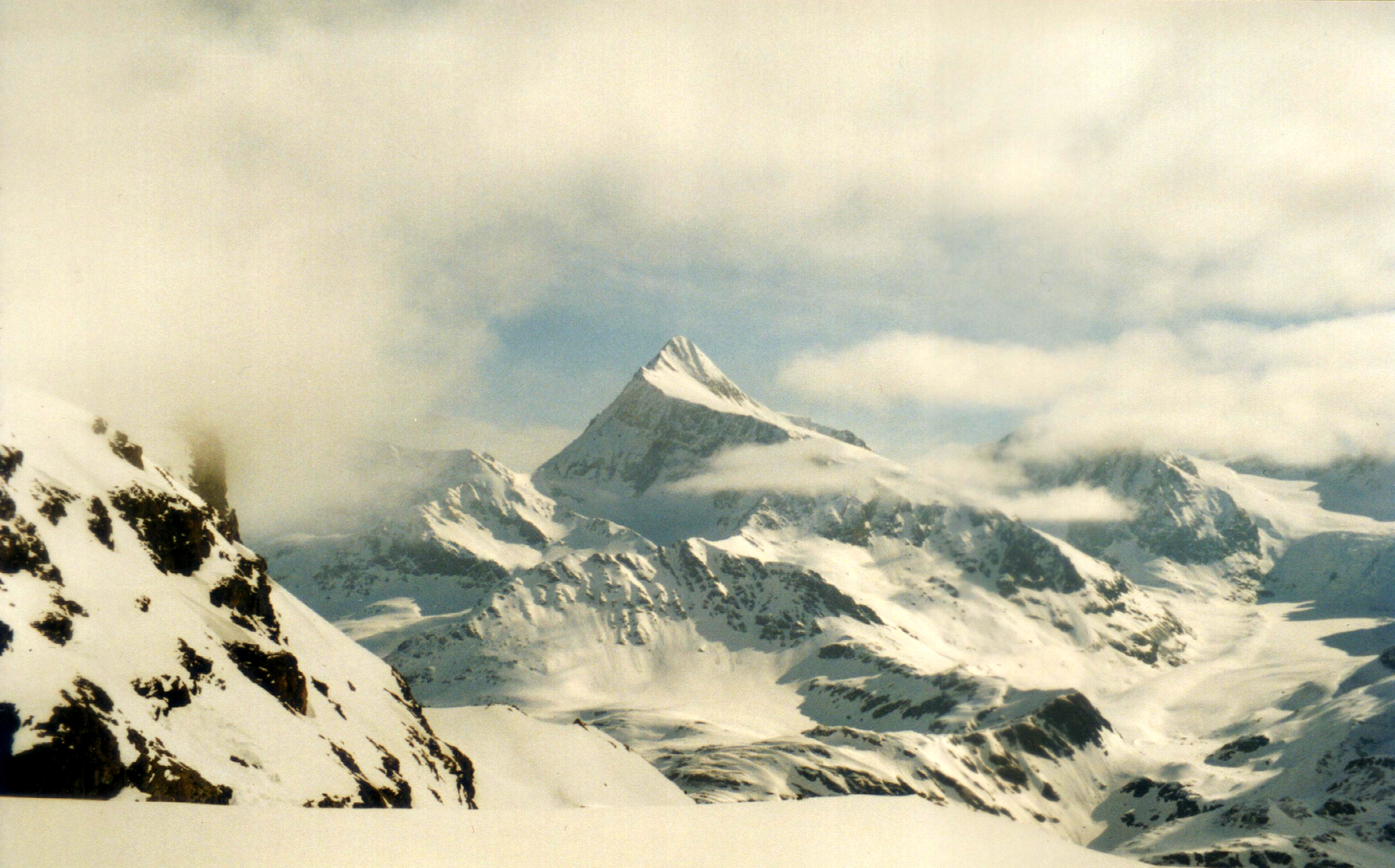 La Ruinette (3875m), Haute Route, Wallis, Switzerland. Seen from Southwest.